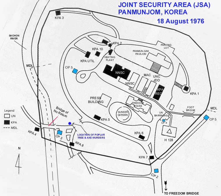 A map showing the layout (and names) of the various buildings within the Joint Security Area. Legend: CP - Check Point KPA - Korean People's Army MAC - Military Armistice Commission MDL - Military Demarcation Line NNSC - Neutral Nations Supervisory Commission OP - Observation Post UNC - United Nations Command